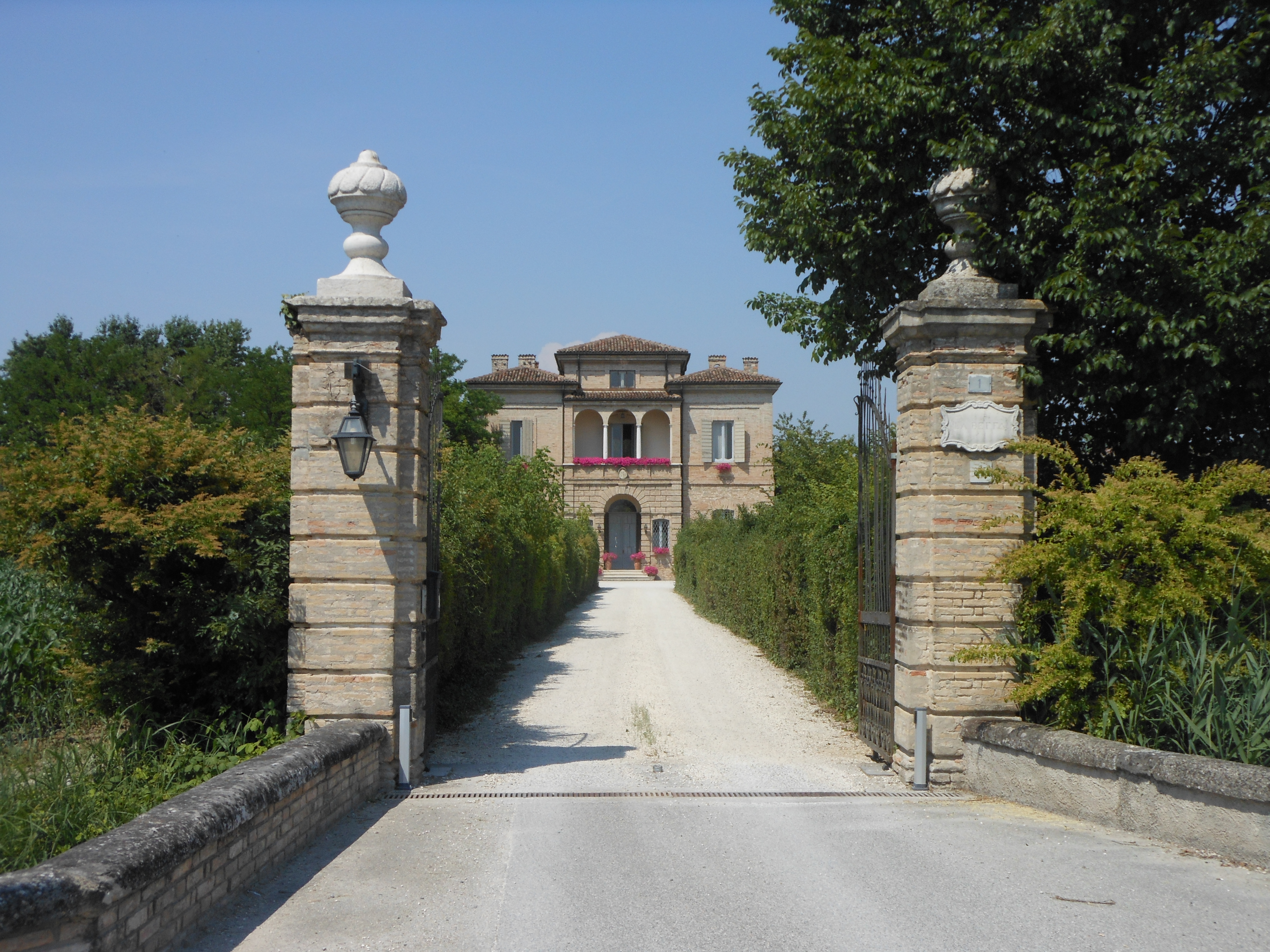 Villa Beffa, ingresso